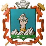 Coat of Arms of Gornozavodsk and Gornozavodsky rayon, Perm krai, Russia, 2000